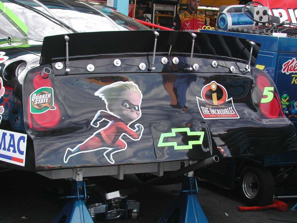 Terry Labonte #5 - Special The Incredibles branding